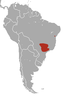 Chestnut-striped Opossum (Monodelphis rubida) range